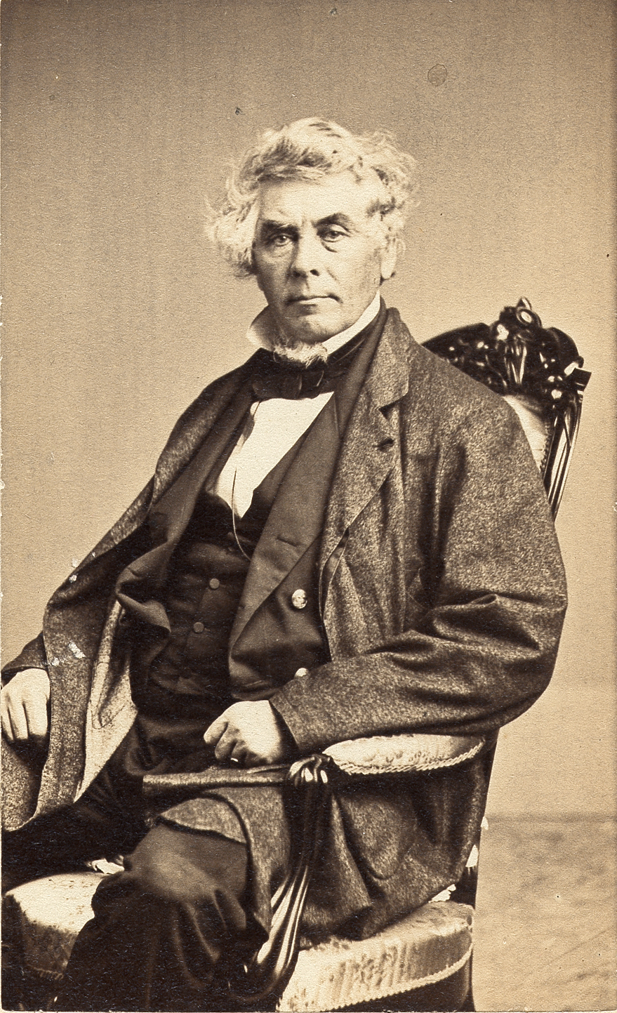 Portrait of American painter Robert Walter Weir (1803-1889).